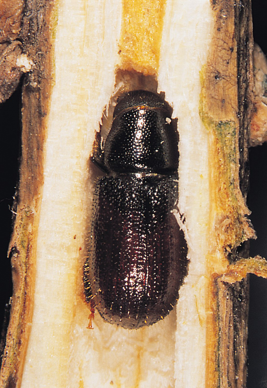 Tomicus piniperda adult, feeding in pine shoot, Hungary.